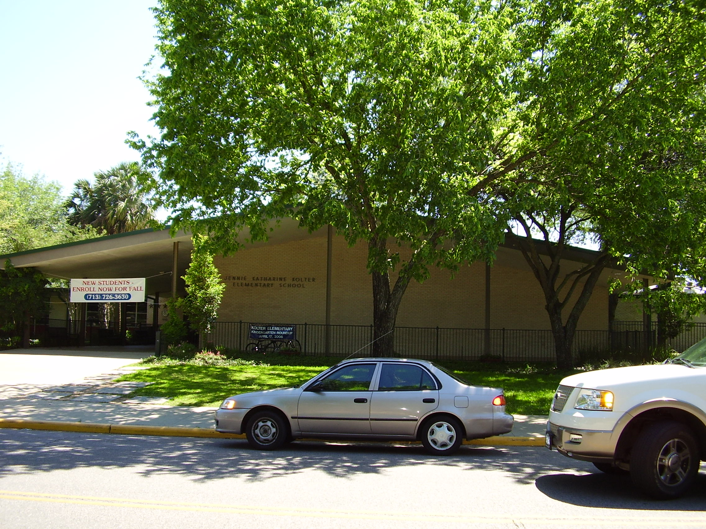 Jennie Katharine Kolter Elementary School